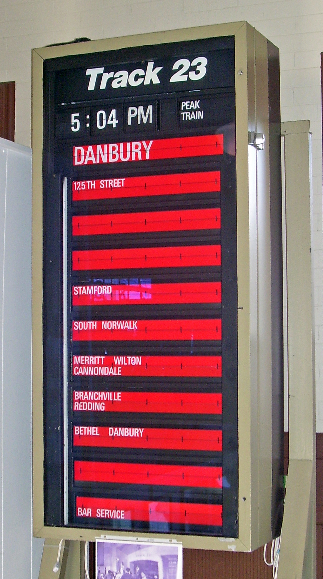 Old Solari board from Grand Central Terminal in New York for a New Haven Line Danbury Branch train, now in the Danbury Railway Museum. The clock digits and the train data are displayed with "split flap" displays, with text on cards mounted on a wheel behind the panel. An electric mechanism rotates the wheels on command from a control panel, to change the train data.